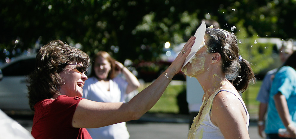 09-September_qwest_pie_throwing_0111